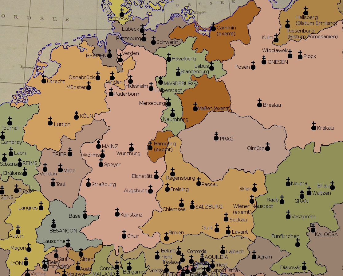 Ecclesiatical provinces (archdioceses) in Central Europe AD 1500. The territory of the dioceses and archdioceses (spiritual jurisdiction) was always much larger than the prince-bishoprics and archbishoprics (temporal principalities) ruled by the same individual.